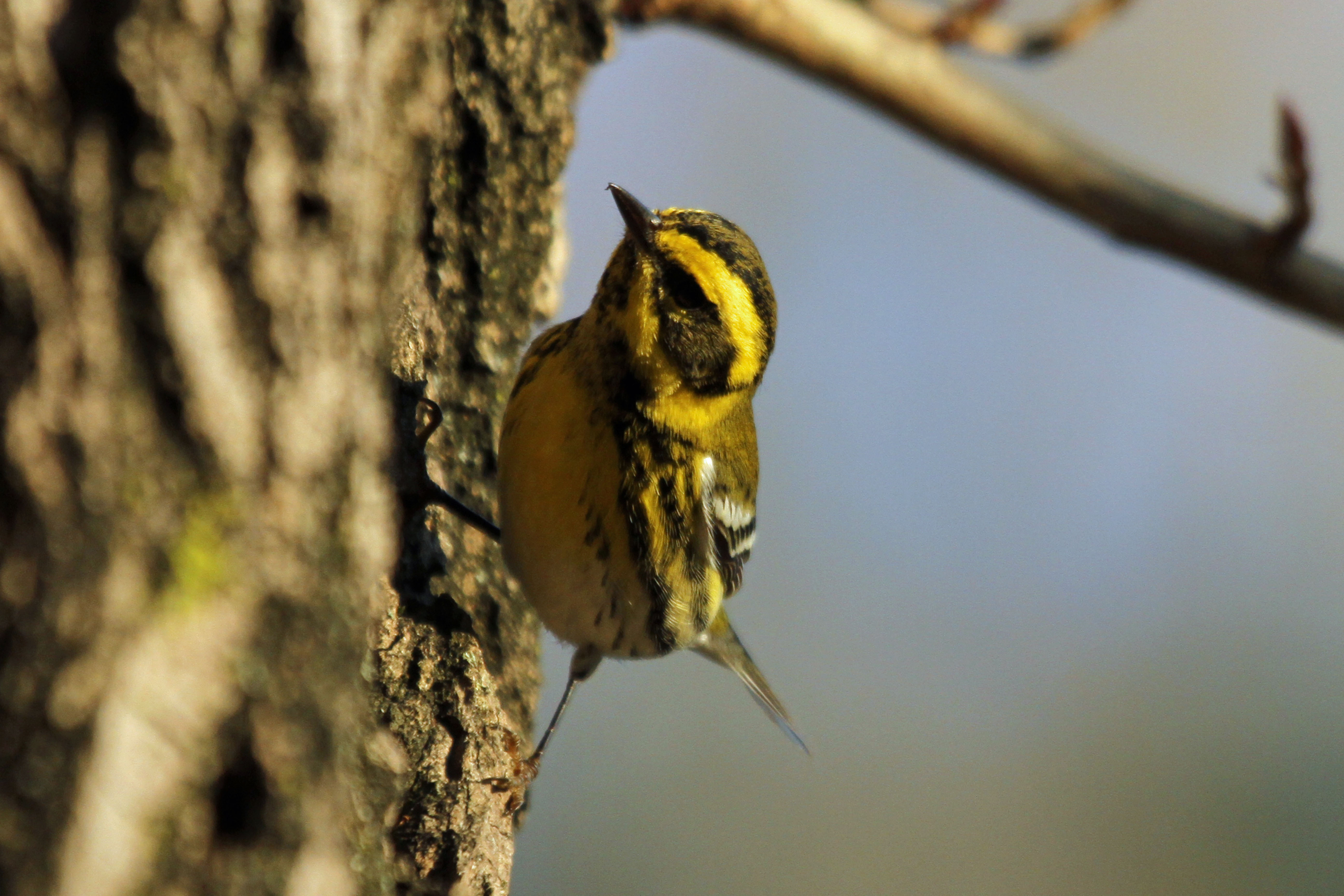 A Townsend's Warbler in San Francisco, California, USA.